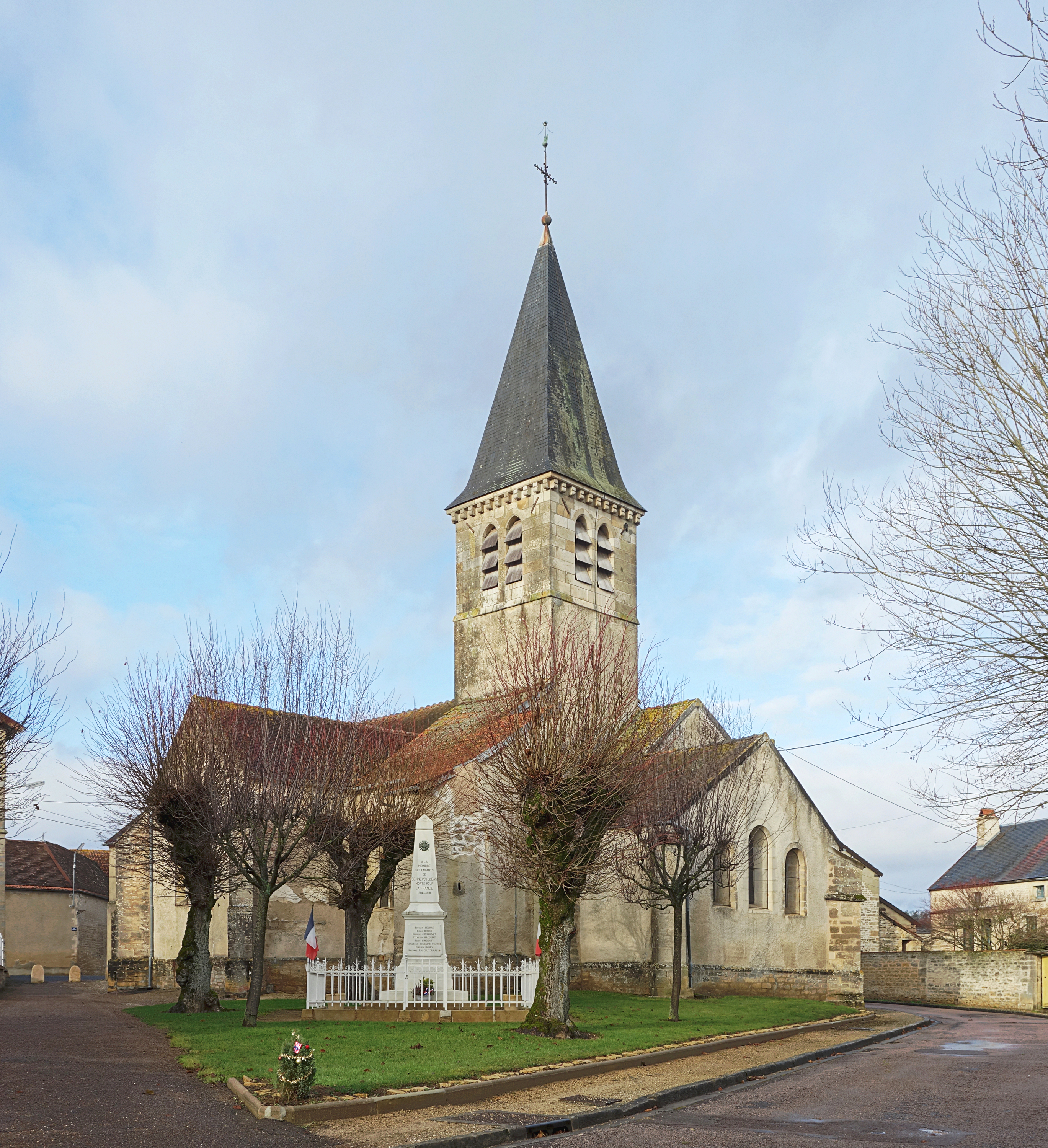 Saint-Pierre church in Sennevoy-le-Bas, France.